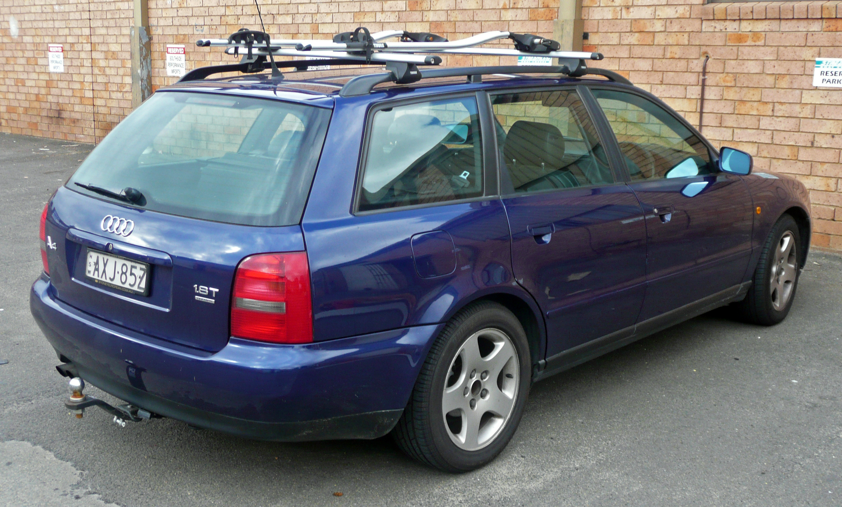 1998–1999 Audi A4 (8D) 1.8T quattro Avant. Photographed in Kirrawee, New South Wales, Australia.